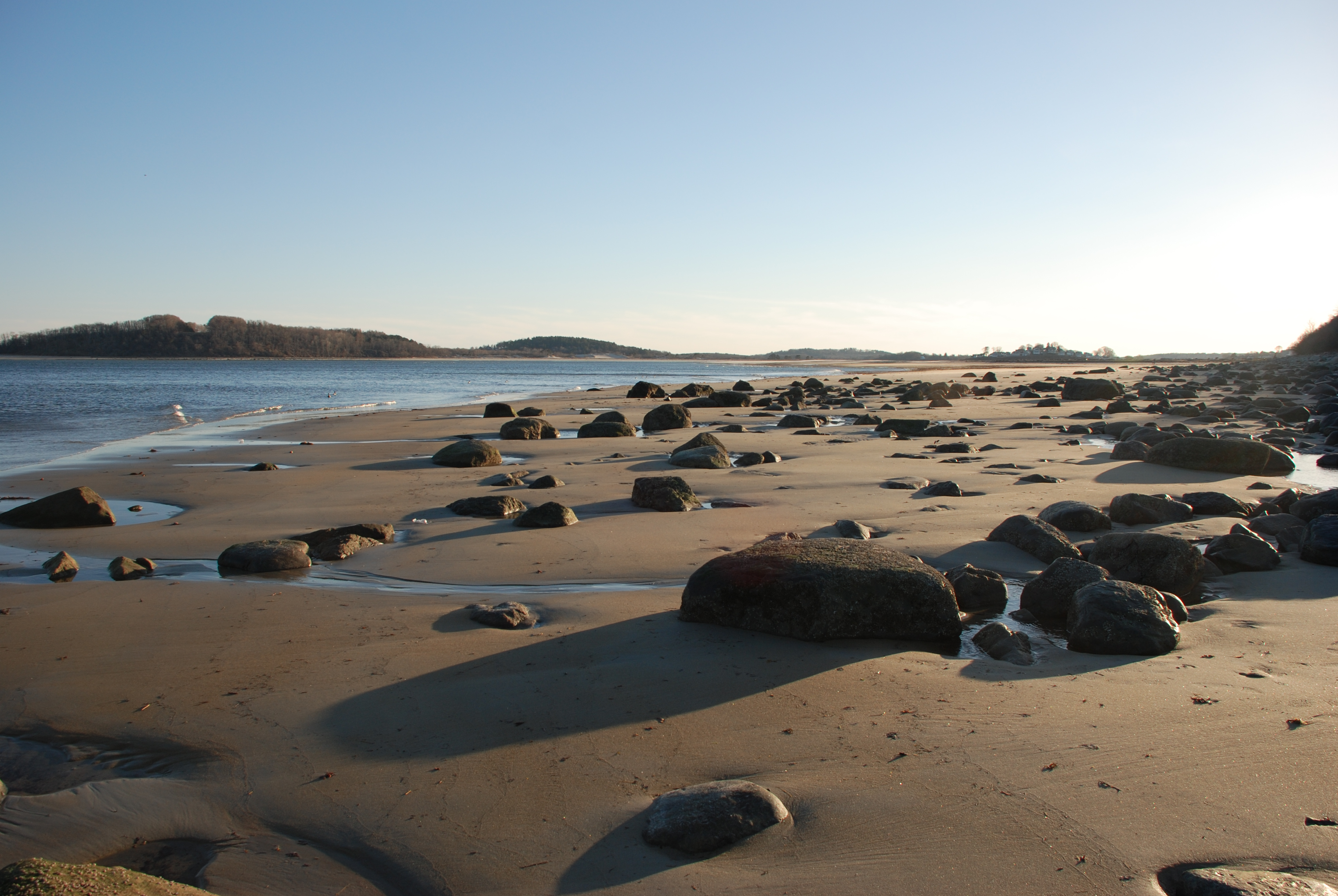 Beach in the Southern part of Plum Island (Massachusetts, USA)